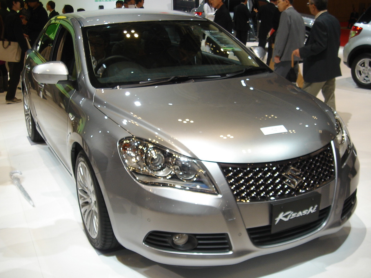 SUZUKI Kizashi